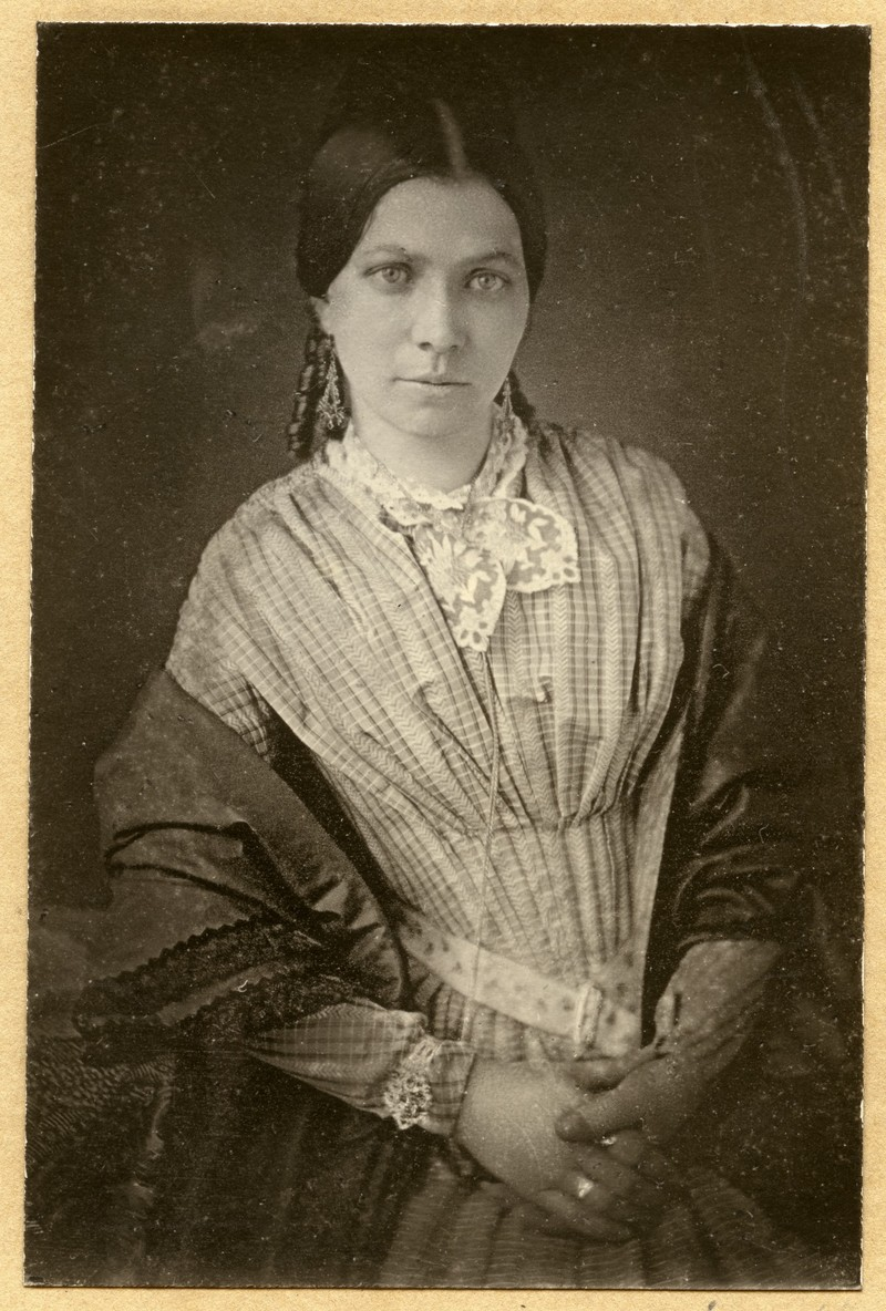 Photograph portrait of Martha Dillon Eads, wife of James B. Eads. She has dark hair parted in the middle, drawn back at sides to small vertical hanging curls (banana curls) She is dressed in a frock with a gathered shawl bodice, with lace tie and at sleeve cuffs, fabric is small woven plaid, and she wears a dark lace-trimmed shawl.